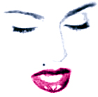 icon of Madonna, source picture taken in September 1990 at the AIDS Project Los Angeles benefit concert